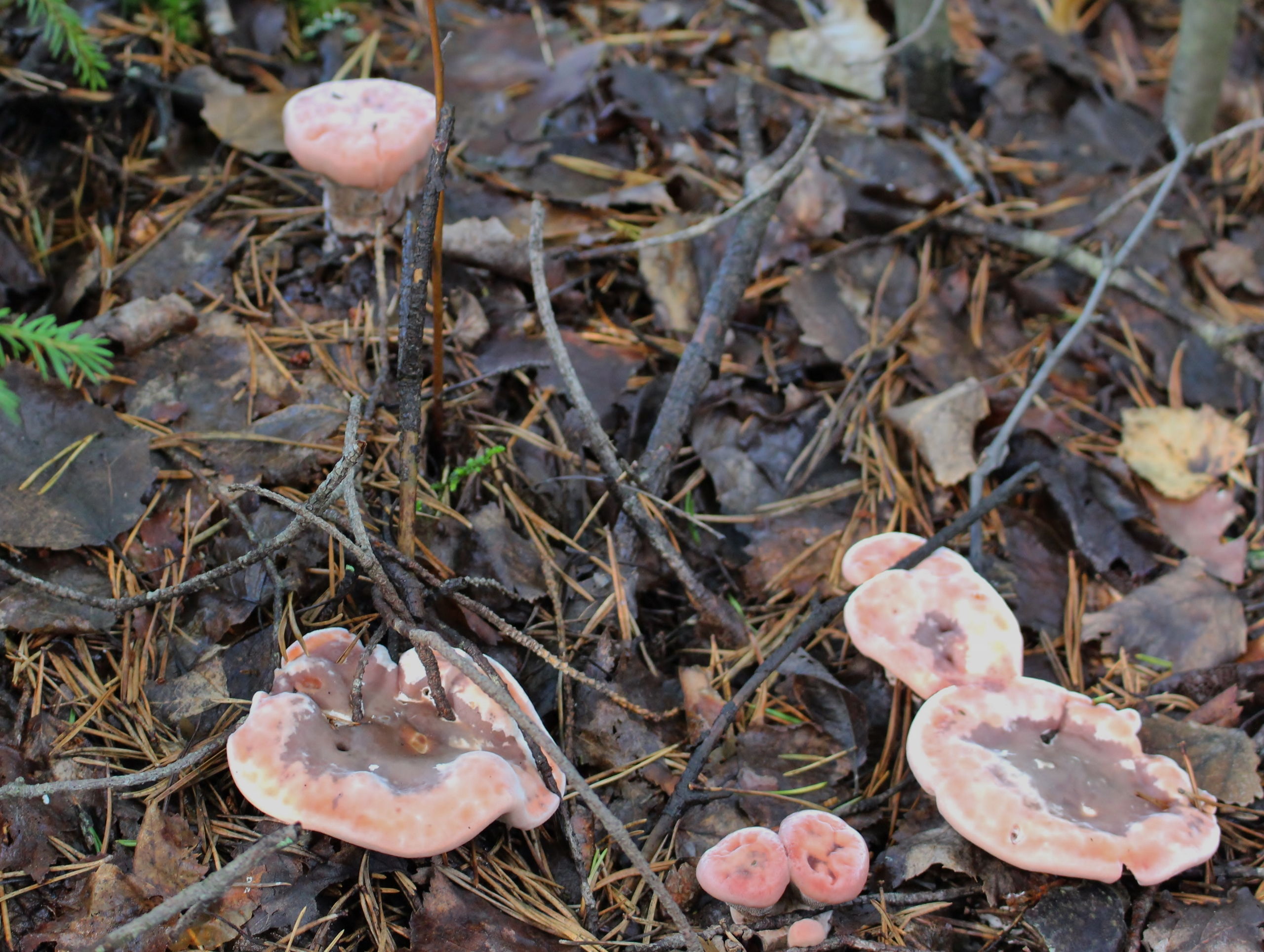 Bleeding Tooth Fungus (Hydnellum peckii) i Tuusula, Finland